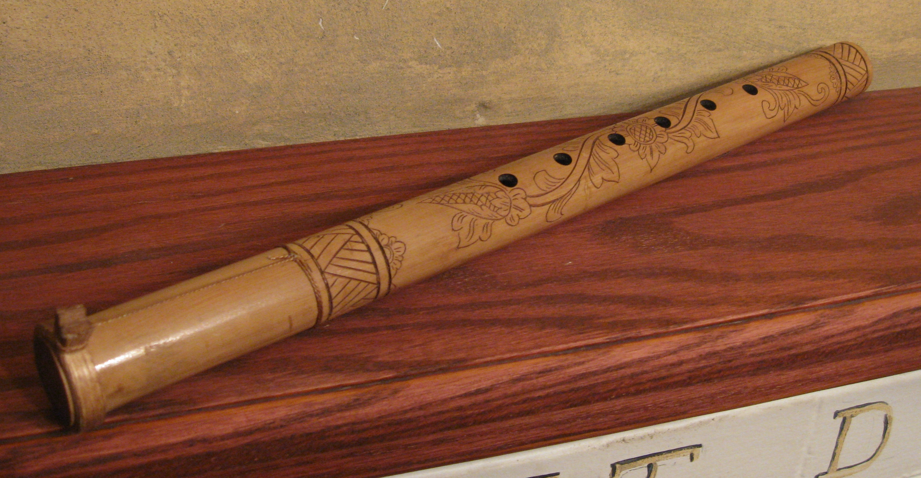 Photograph of a Suling, an Indonesian edge-blown aerophone (flute)